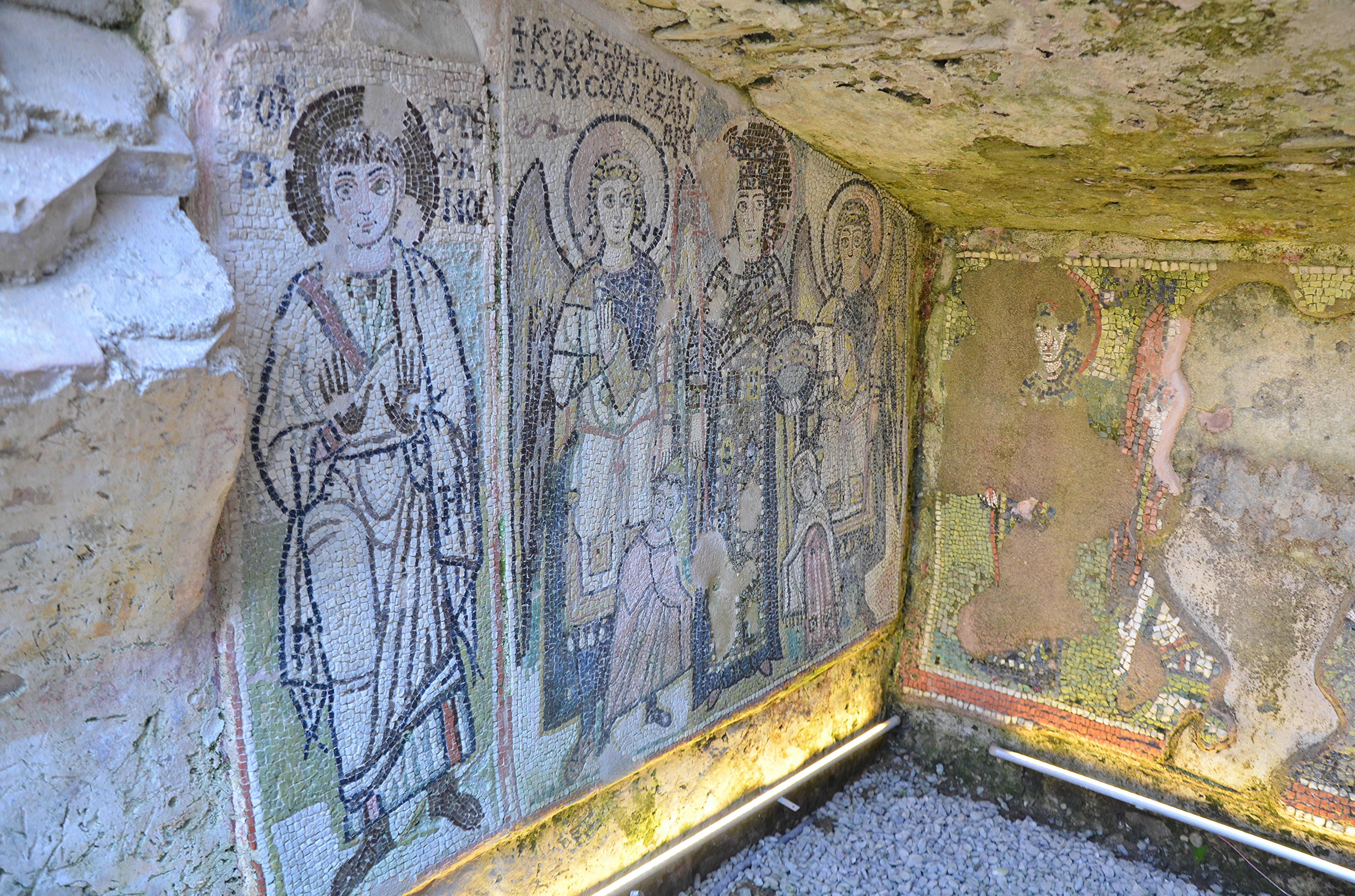 The early Christian chapel constructed inside the Durrës Amphitheatre in the second half of the 4th century AD, the chapel was initially decorated with frescoes; in the 6th century, mosaics were added, Durrës, Albania